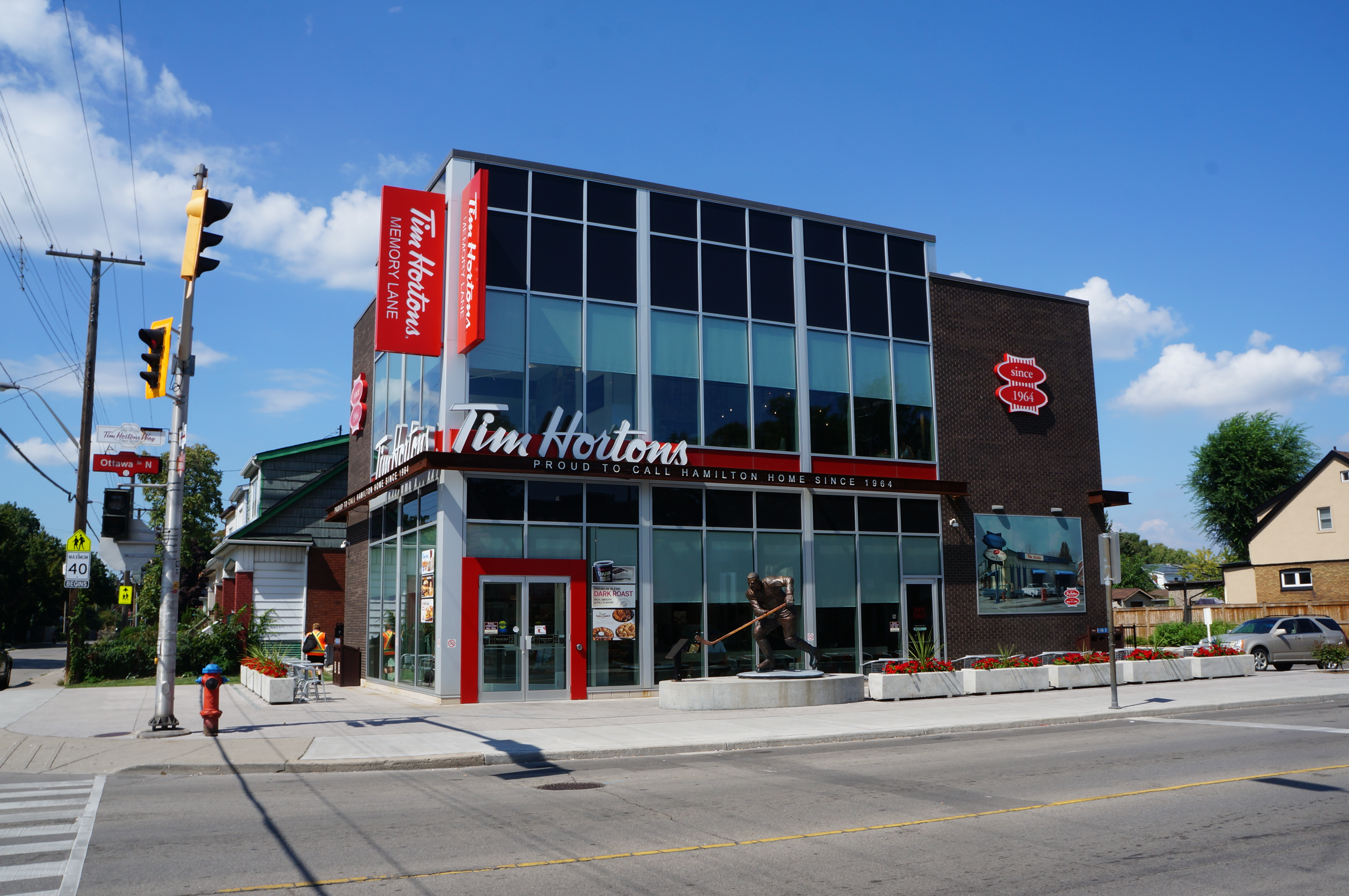 Original Tim Hortons restaurant, at the corner of Ottawa St. N. and Dunsmure Road in Hamilton.